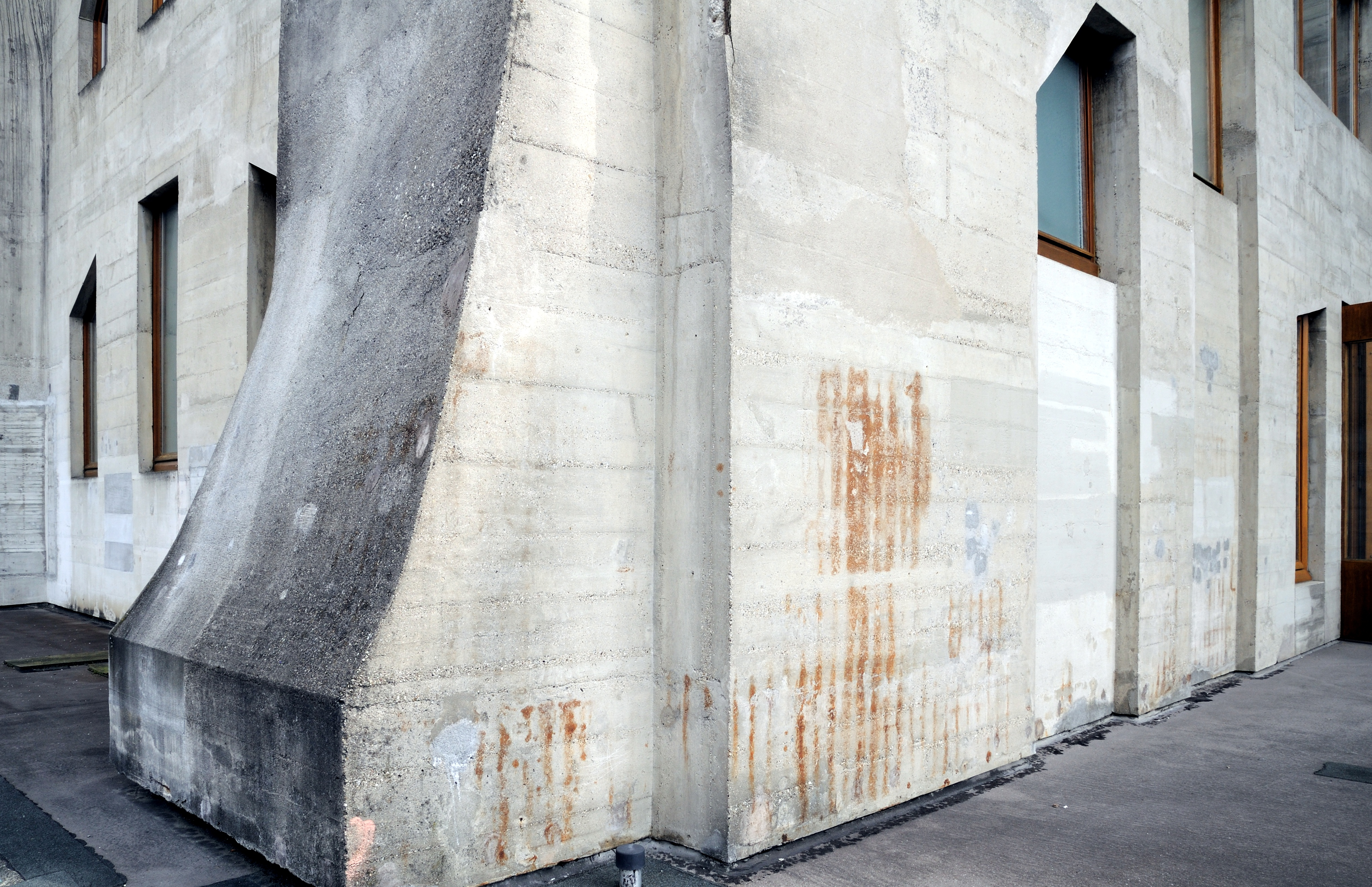 detail of Goetheanum showing corrosion of steel reinforcements in concrete